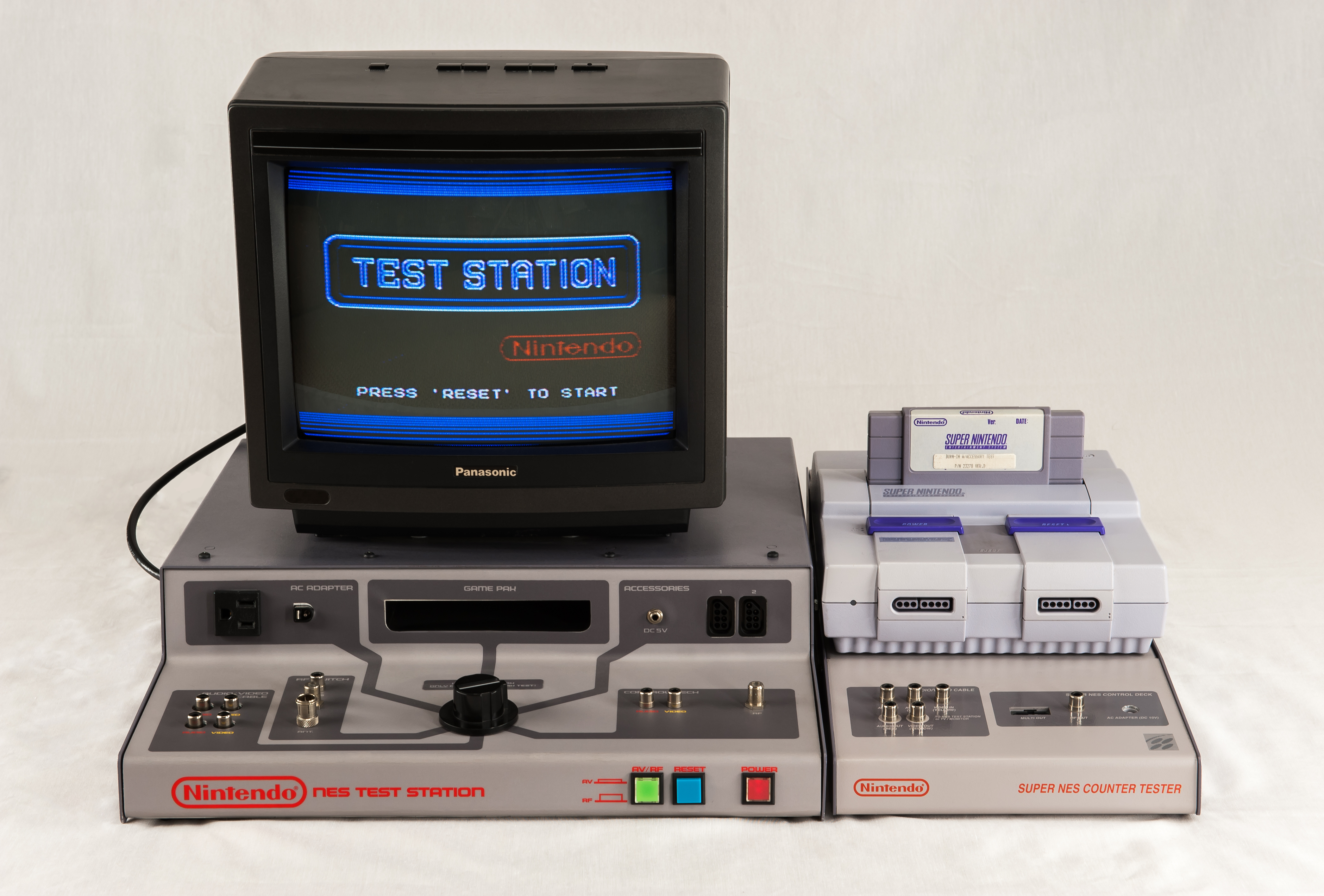 NES Test Station (Lower Left), SNES Counter Tester (Lower Right), SNES test cart (Upper Right), and the original TV that came with the unit (Upper Left).